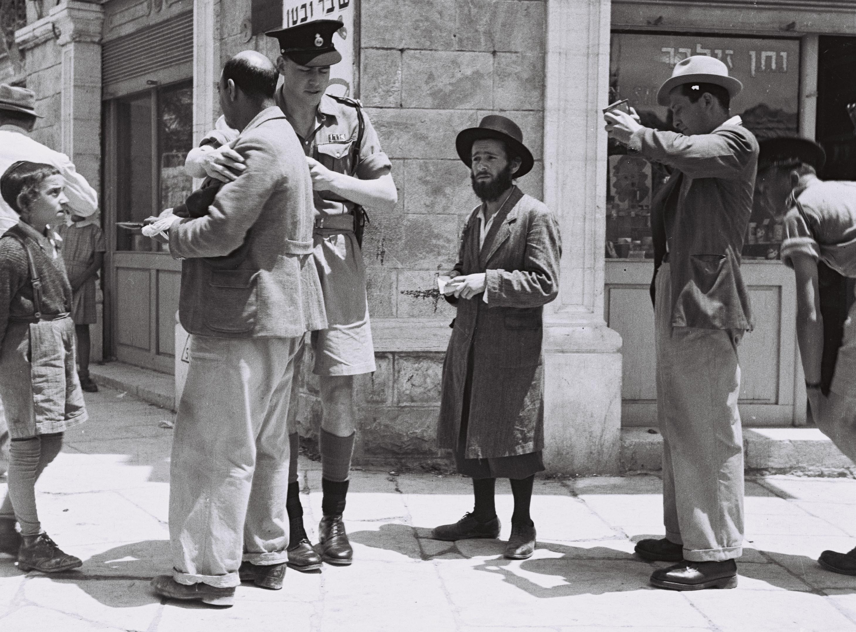 A british policeman checking papers of padders by on a street in Jerusalem, during the British Mandate of Palestine, 1947